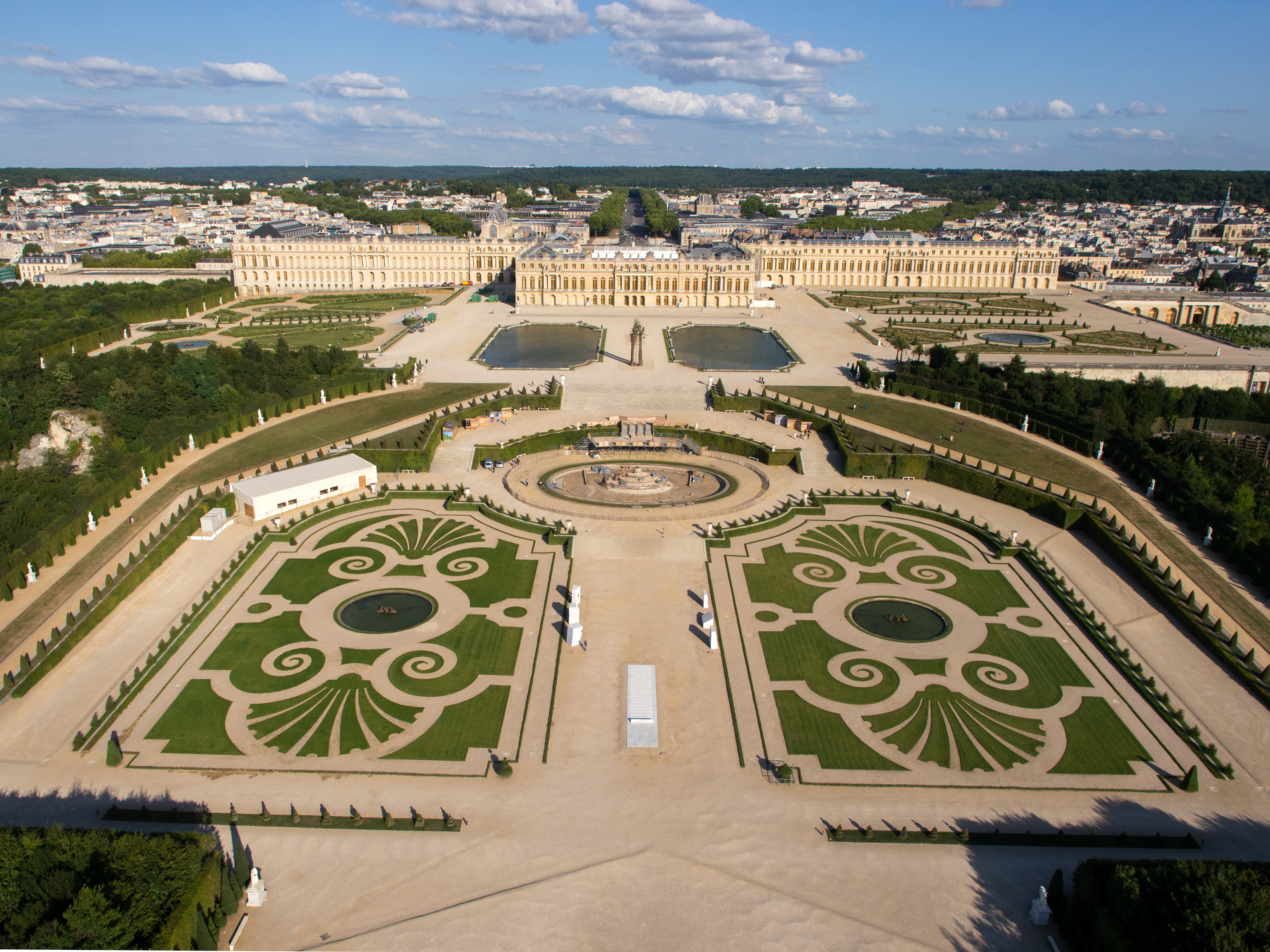 Aerial view of the parterre de Latone in the gardens of the Palace of Versailles, France